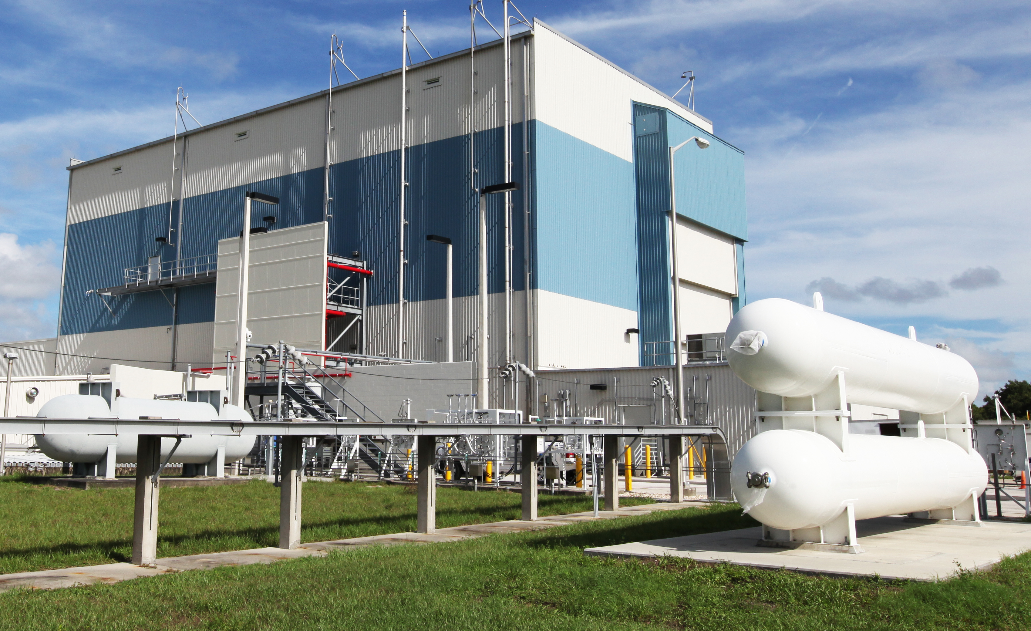 Progress being shown inside and outside the Multi Payload Processing Facility (MPPF) at Kennedy Space Center.